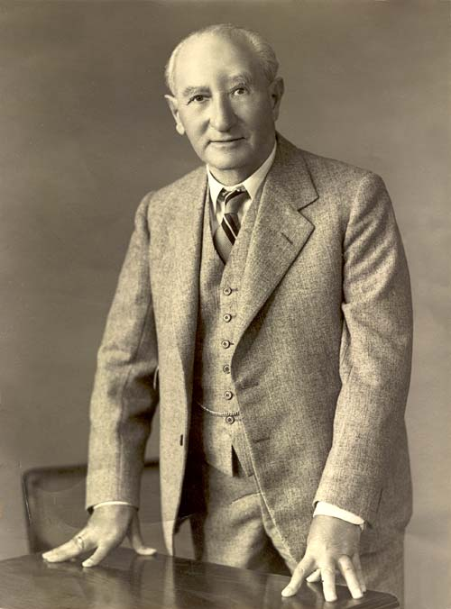 Photograph of Johann Gerhard Husheer taken between 1930 and 1939 by an unknown photographer.